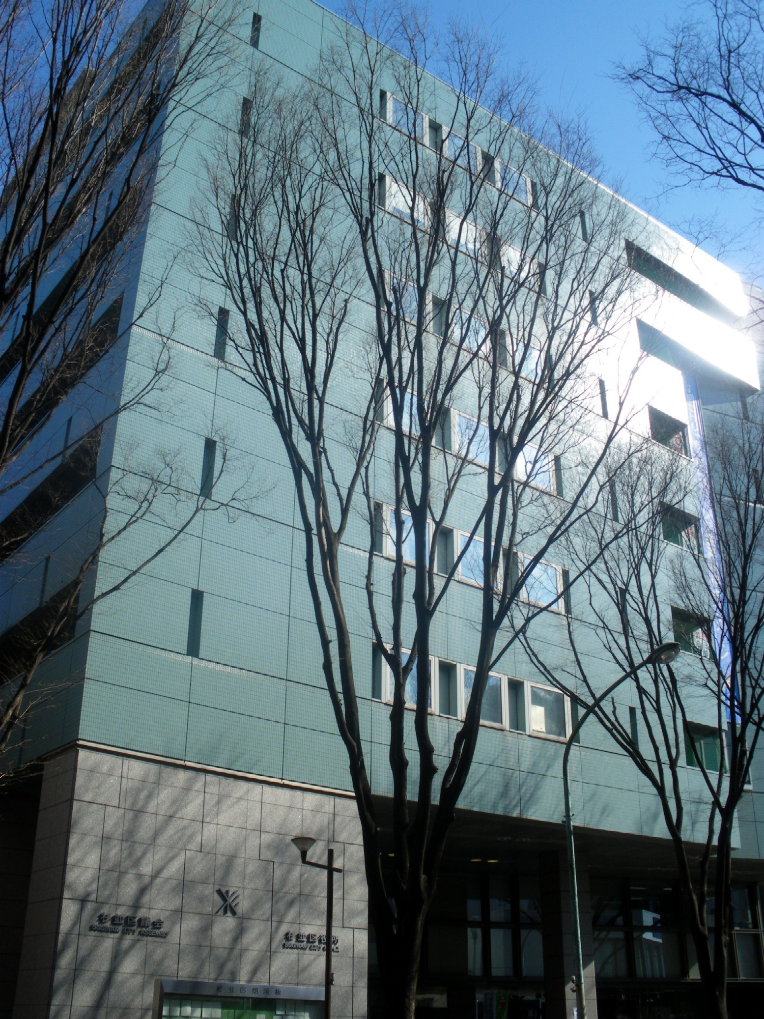 A photo of Suginami City Office,Asagayaminami,Suginami-ku,Tokyo,Japan.